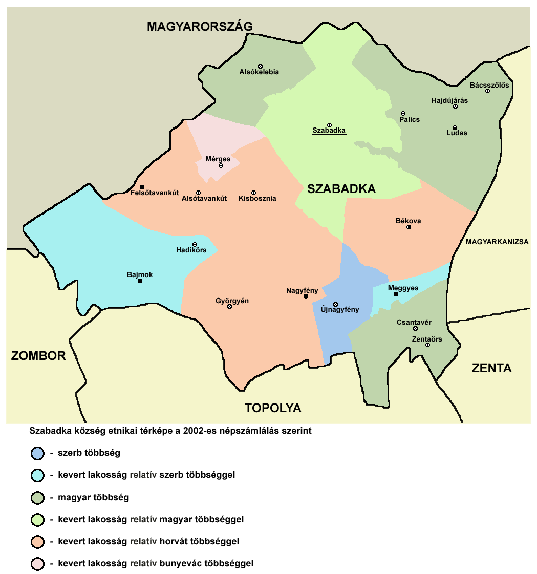 Ethnic map of Subotica municipality in Vojvodina, Serbia (in Hungarian).